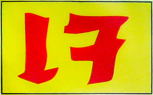 JE or CHE: Sign at a food shop or restaurant signifying "Vegetarian" Chinese or Vietnamese style: No animal products or certain vegetables such as garlic, parsley or chives. Online Royal Institute definition in Thai